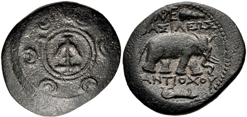 SELEUKID KINGS of SYRIA. Antiochos I Soter. 281-261 BC. Æ (21mm, 5.90 g, 3h). Antioch mint. Macedonian shield with Seleukid anchor in central boss / Elephant walking right; monogram and club above, jawbone in exergue.